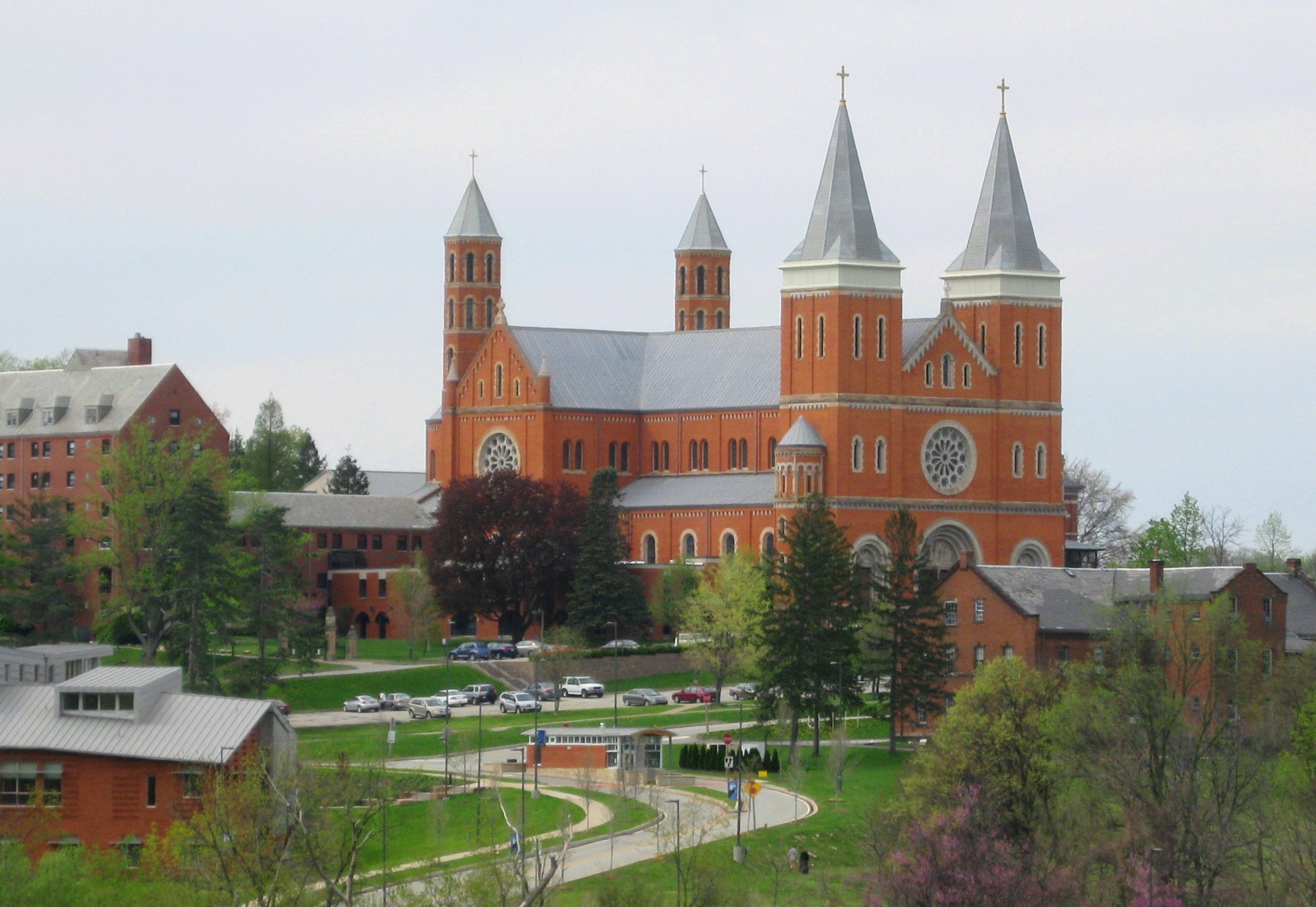 Archabbey Saint Vincent and College, Latrobe